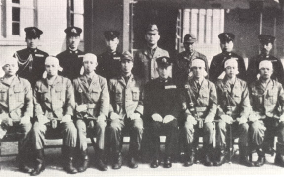 Japanese Admiral Daigo Tadashige with Kaiten crew on submarine I-36